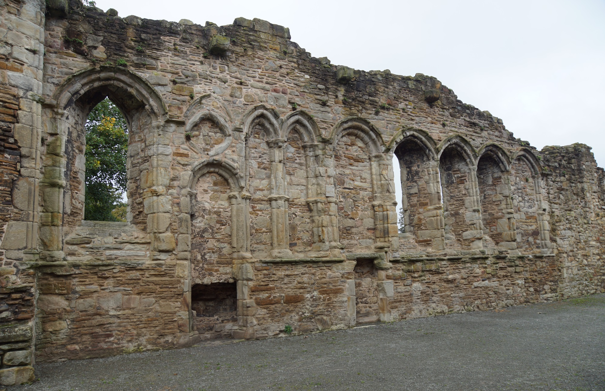 Basingwerk Abbey, Wales. West wall of refectory.